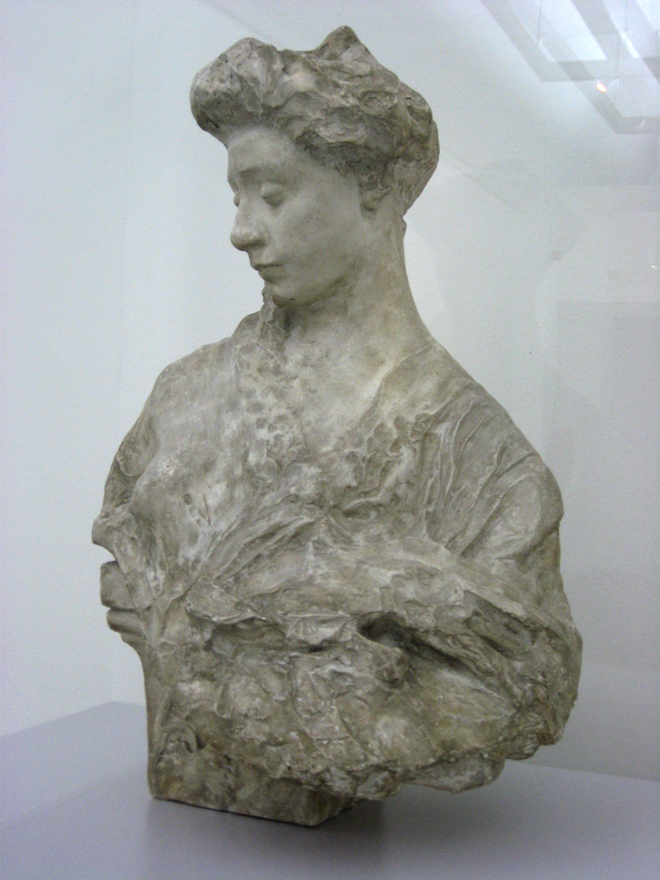 Auguste Rodin's Madame Fenaille (1898). Plaster cast, Stedelijk museum, The Netherlands. 3quarters view.